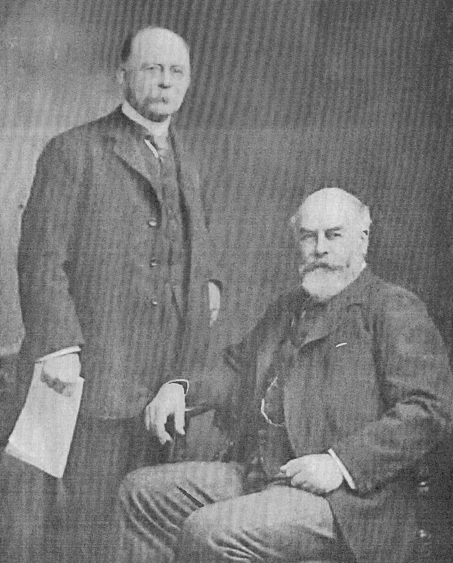 Photo of the two authors, Augustine Henry (standing) and Henry John Elwes.